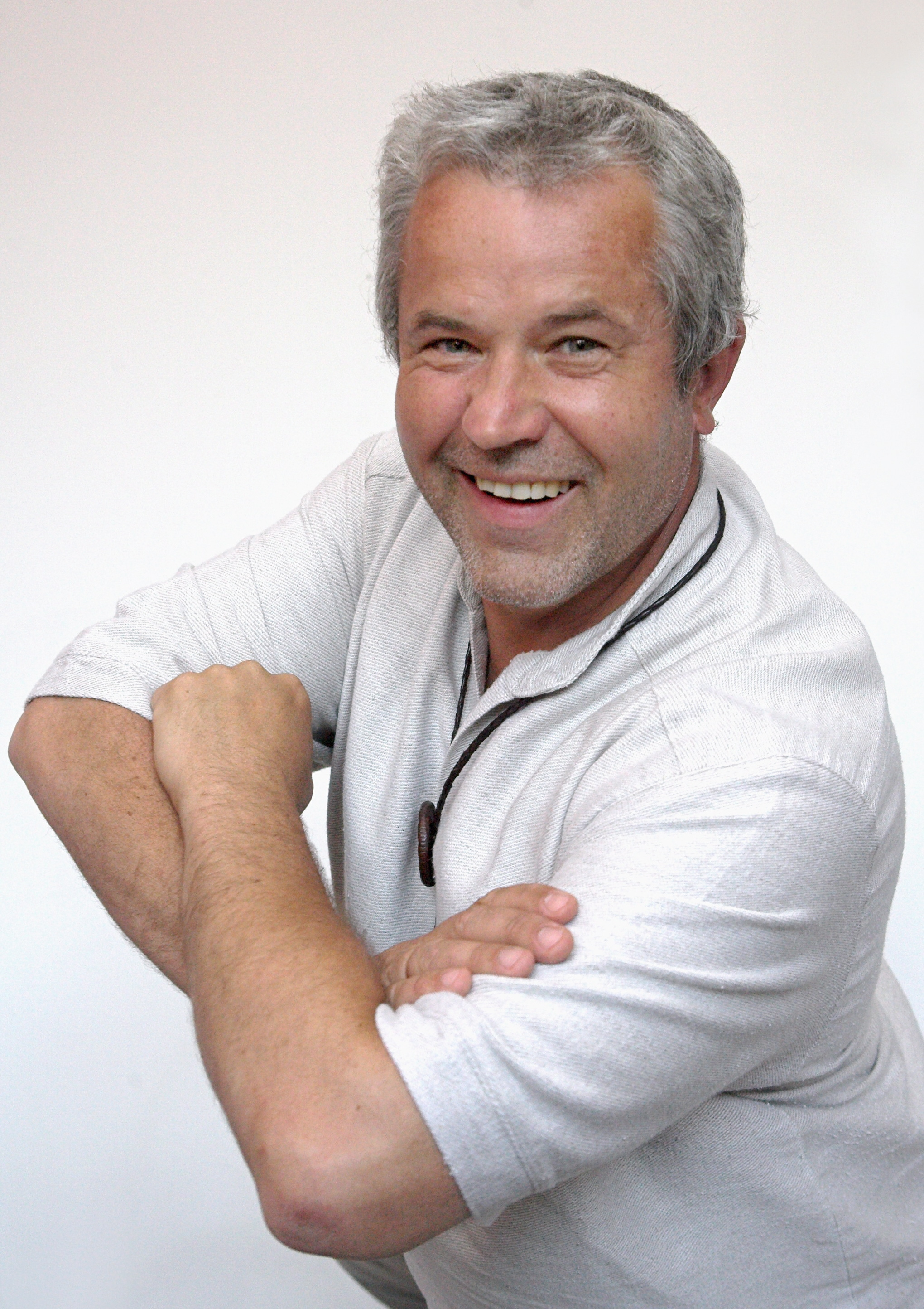 Estonian journalist Rein Sikk.